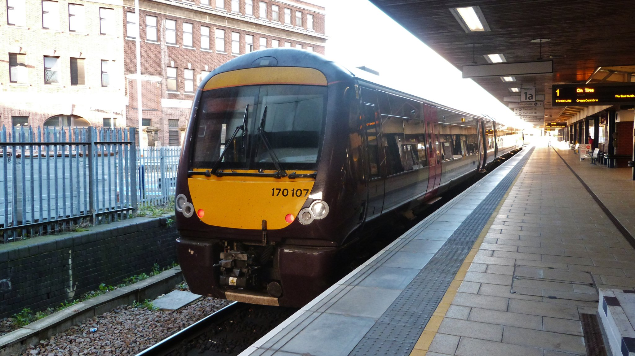 The Class 170 Turbostar is a British diesel multiple-unit train built at Bombardier Transportation's Derby Lane Works. Introduced after privatisation, these trains have operated regionally, long-distance and suburban services.